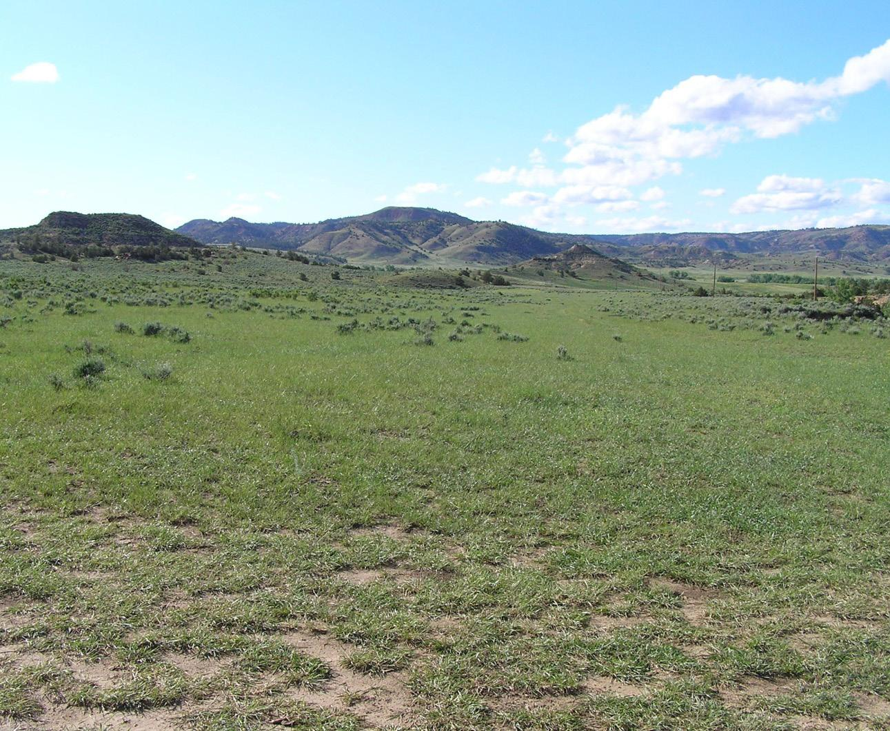 Wolf Mountains Battlefield-Where Big Crow walked Back and Forth